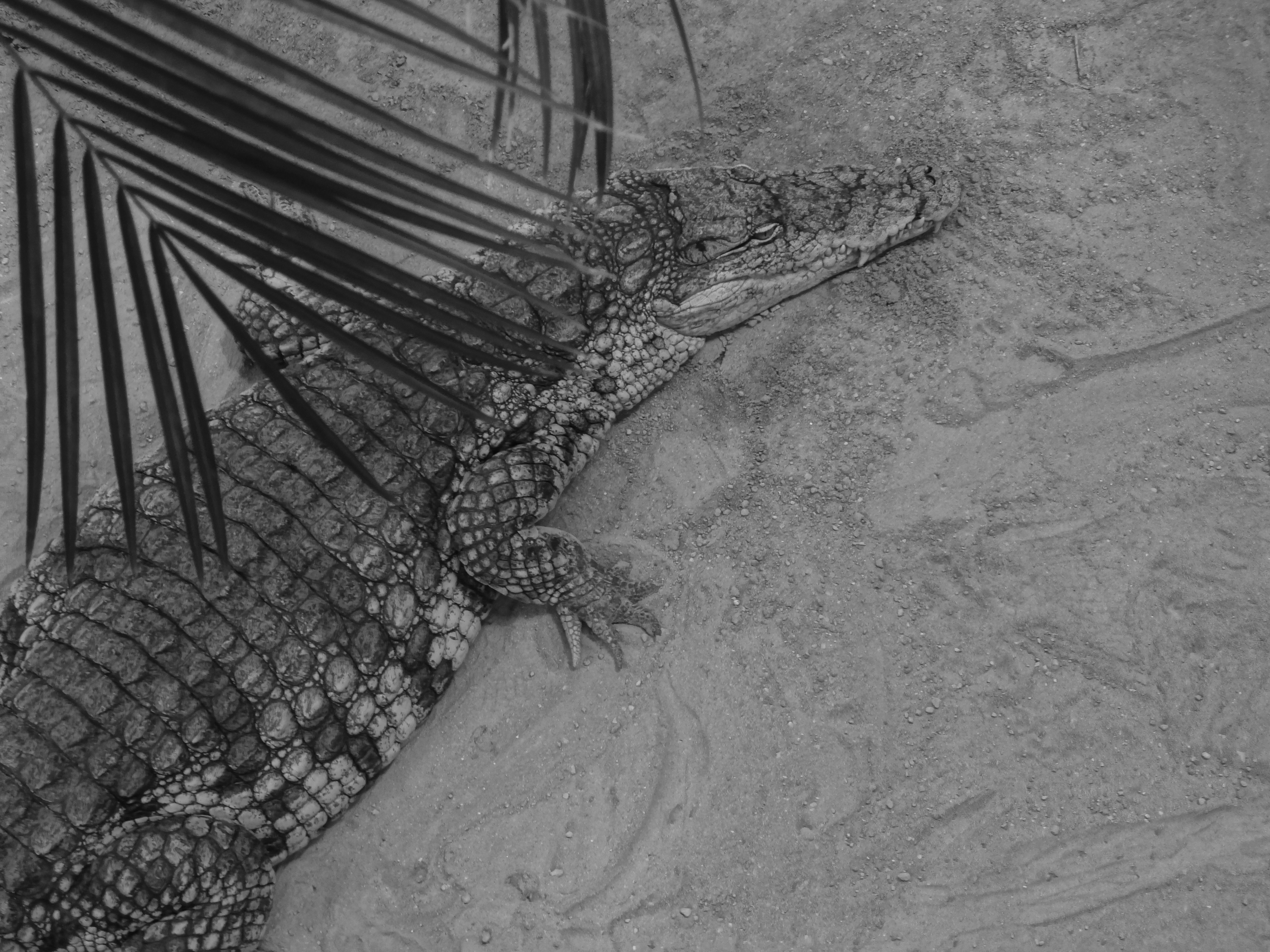 Faunia in Madrid, Spain